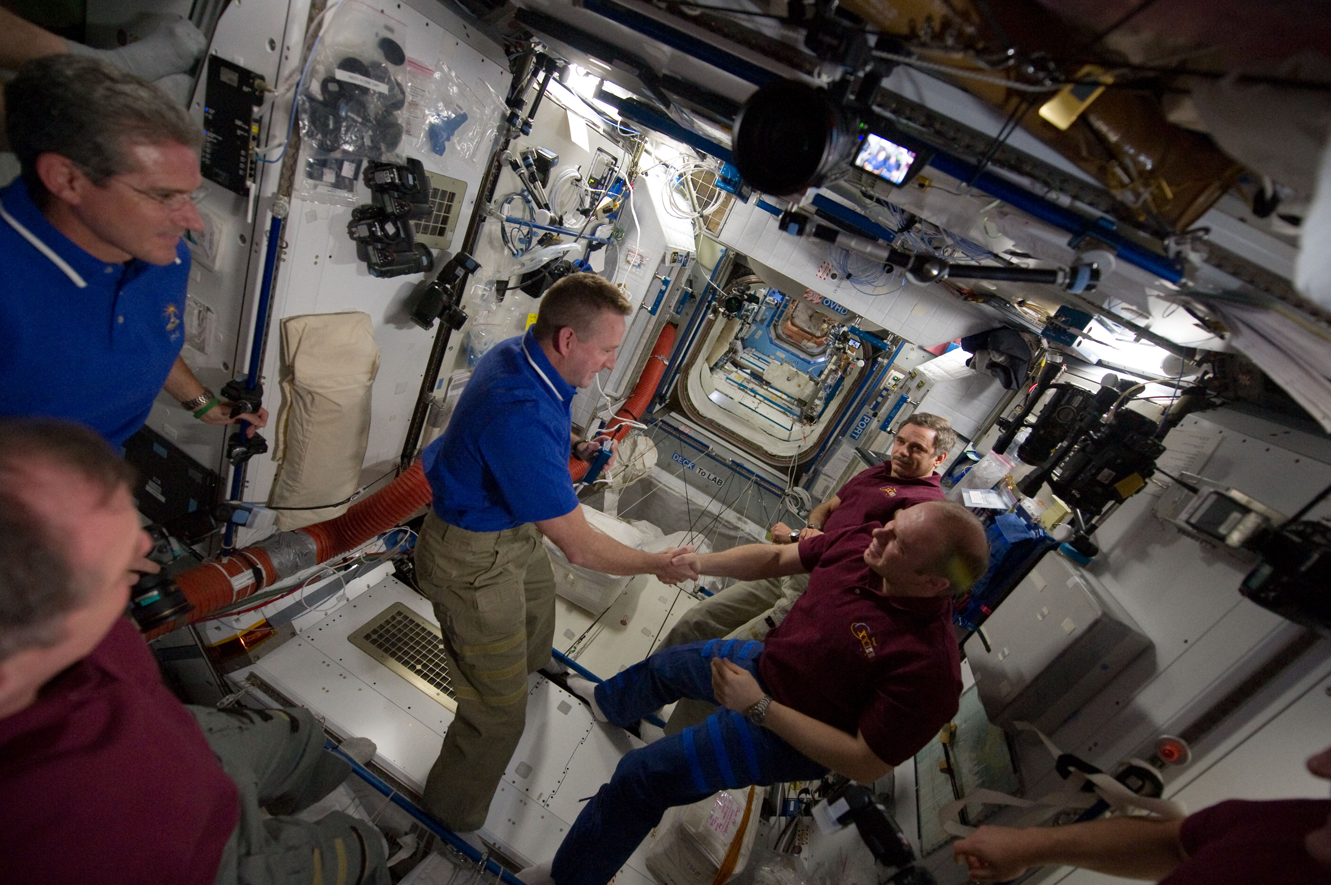 NASA astronaut Ken Ham (left), STS-132 commander; and Russian cosmonaut Oleg Kotov, Expedition 23 commander, shake hands during a farewell ceremony in the Harmony node of the International Space Station while space shuttle Atlantis remains docked with the station.